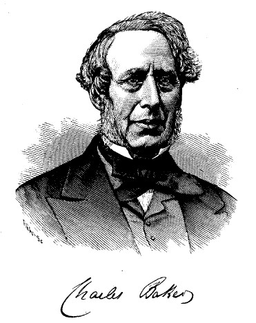 Charles Baker PhD (1803-1874), British teacher of the deaf.